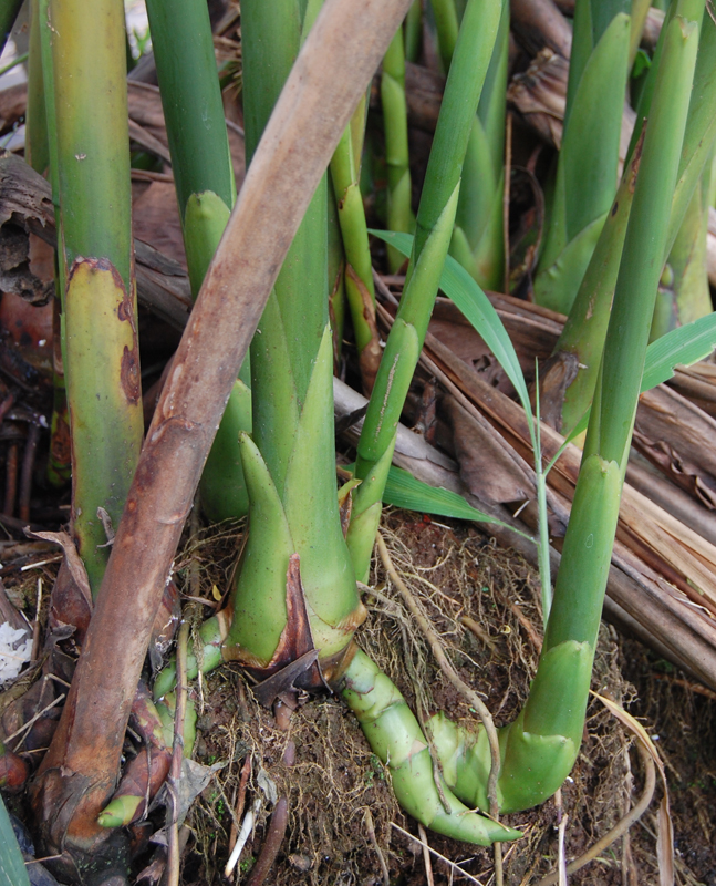 Torch ginger Etlingera hemisphaerica, rhizome and young stems. Darmaga, Bogor, West Java.